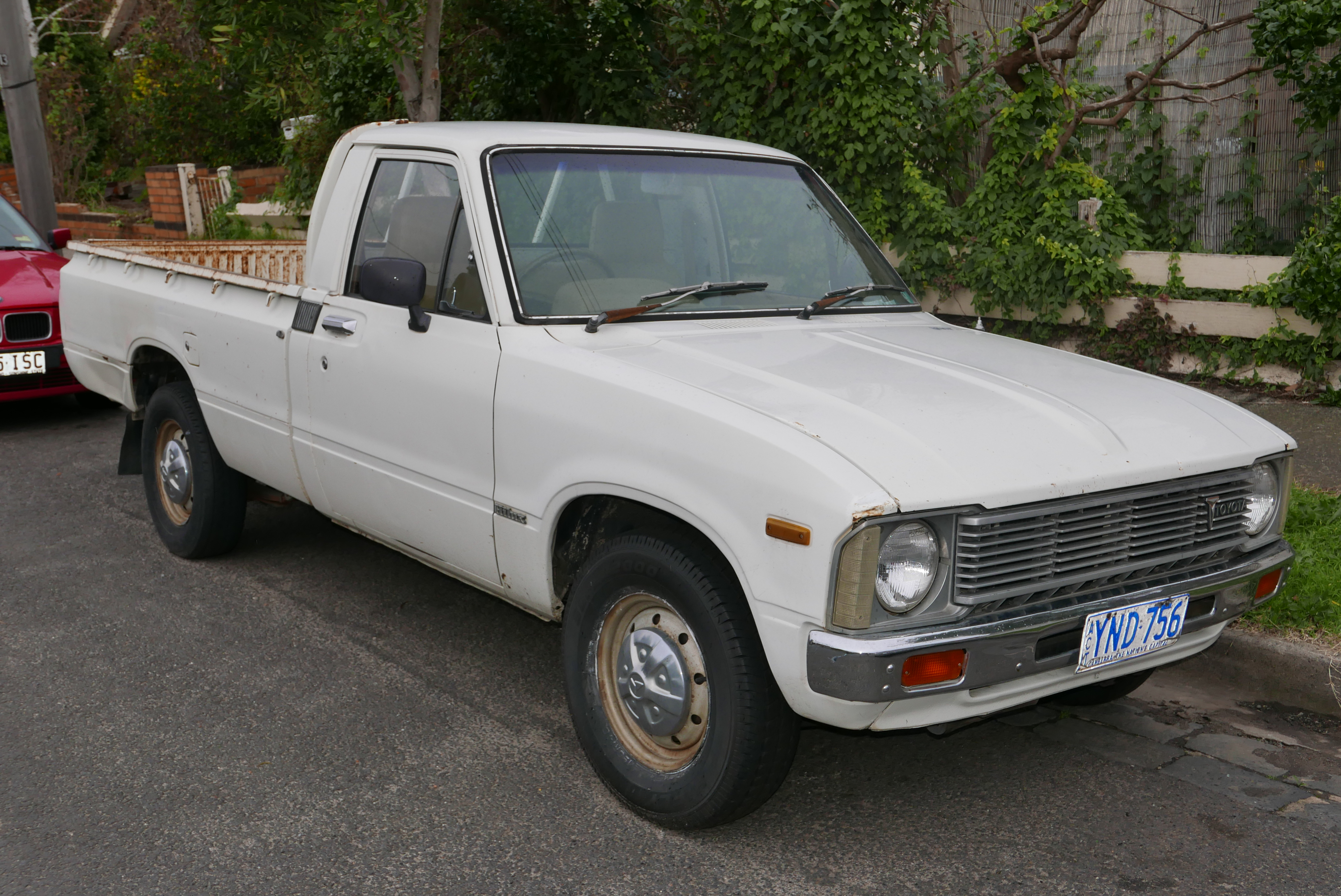 1981 Toyota HiLux (RN40R) 2-door utility. Photographed in Northcote, Victoria, Australia. Vehicle registration enquiry results Jurisdiction Australian Capital Territory Registration YND756 Year of manufacture 1981-06